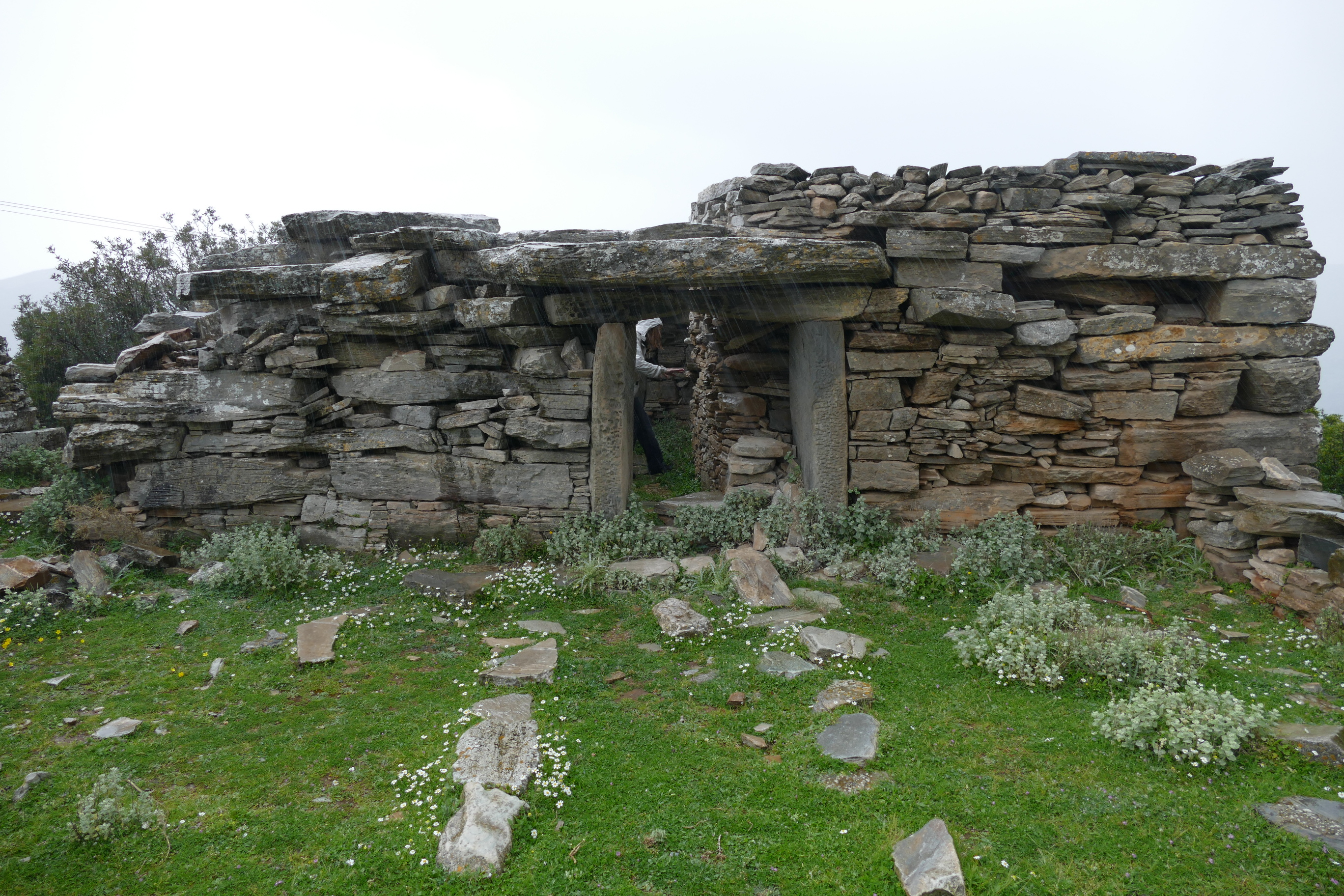 Dagon-house near Kapsala (Euboea)